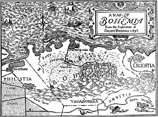 Fanciful map of Bohemia, drawn by Gelett Burgess, appeared in the literary magazine he helped publish: The Lark.